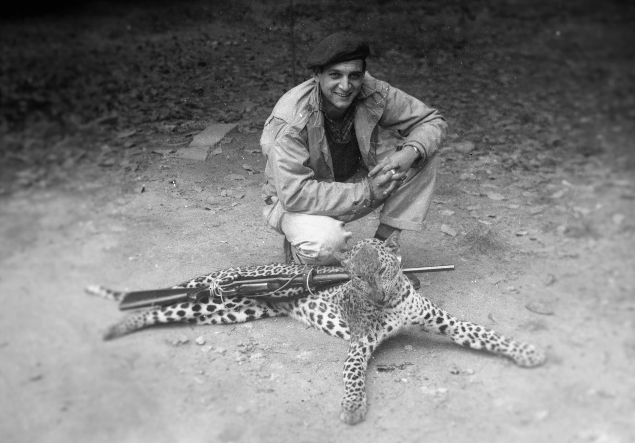 Panther shot with .423 Mauser near Arsikere